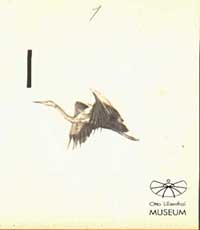 F 0863 LN series of 8 photographs, 11 * 12cm; print on cardboard with punched square hole from photography to film: Anschütz developed a method to shoot series of pictures based on Instant Photographs. The photographs were lined up in a cylinder with a slot for the eyes. So the first moving pictures were produced. The "Schnellseher" (quick viewer) which was based on this method became a crowd-pleaser at Worlds Fair in Chicago in 1893. Česky: Série osmi fotografií čápa. 11 * 12cm; print Anschütz vyvinul metodu sériového snímání. Snímky potom promítal v zařízení zvaném "Schnellseher" (rychloprohlížeč), ten byl vystaven na Mezinárodní elektrotechnické výstavě ve Frankfurtu. Téměř 34000 platících diváků jej vidělo na výstavě v Berlíně, v létě 1892 pak také v Londýně a nakonec v roce 1893 na Světové výstavě v Chicagu.